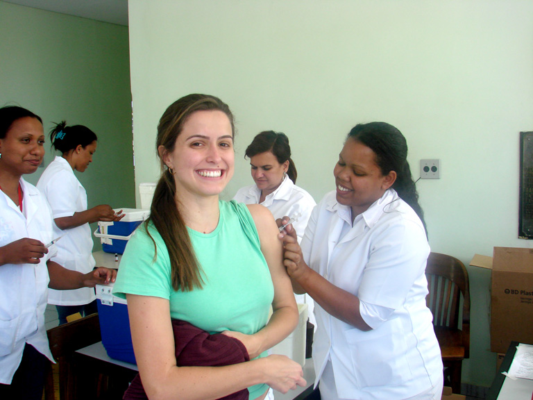 Woman receiving rubella vaccination, School of Public Health of the State of Minas Gerais (ESP-MG), Brazil